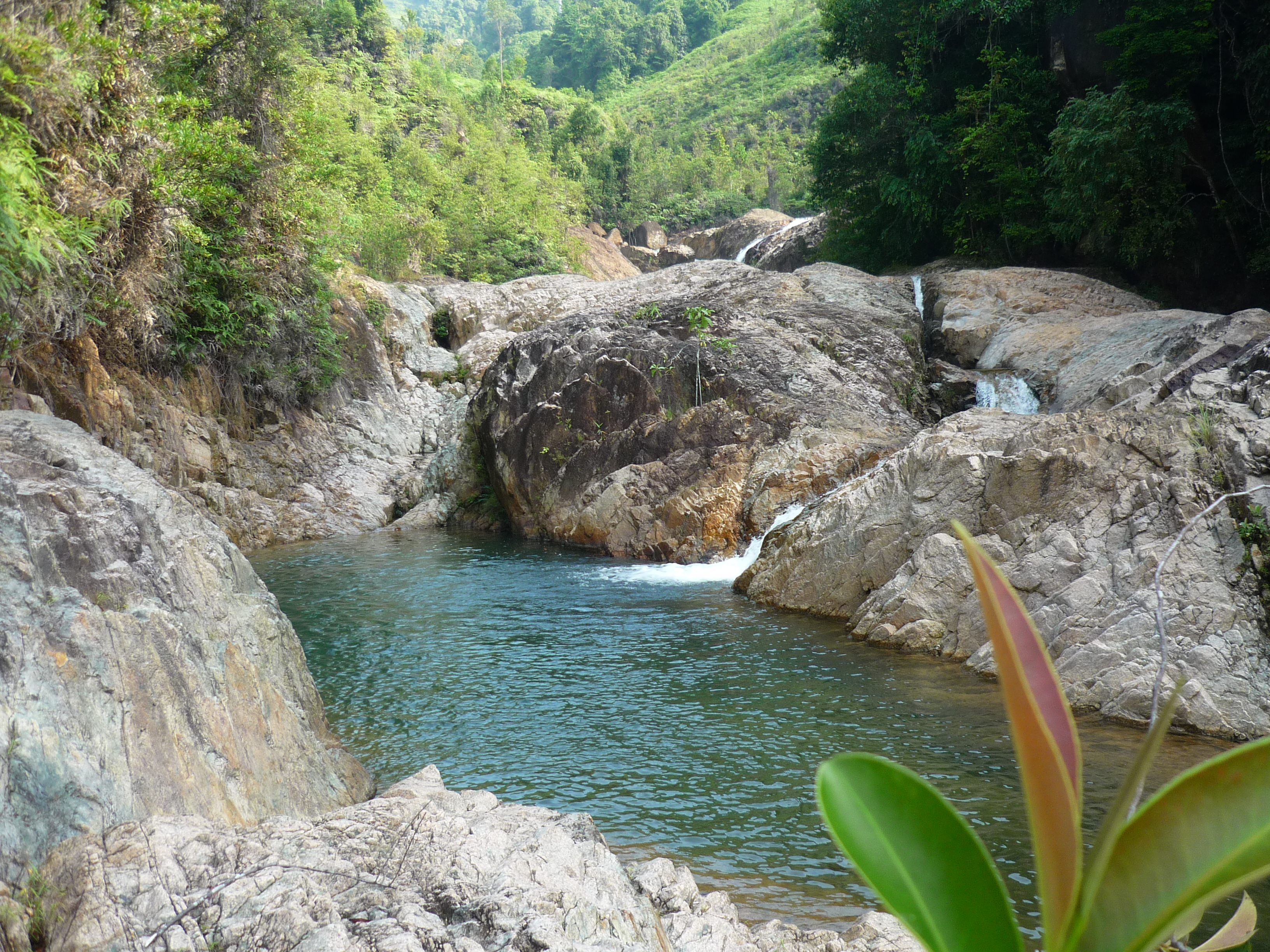 Berkelah Falls, sixth tier.